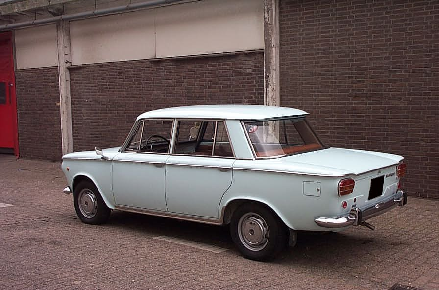 1966 Fiat 1500 saloon, Alice Blue, interior in copper fake leather The vehicle was on sale at the Garage de l'Est at the time the image was uploadedOriginal photograph digitally modified using GIMP (removed license plate number)